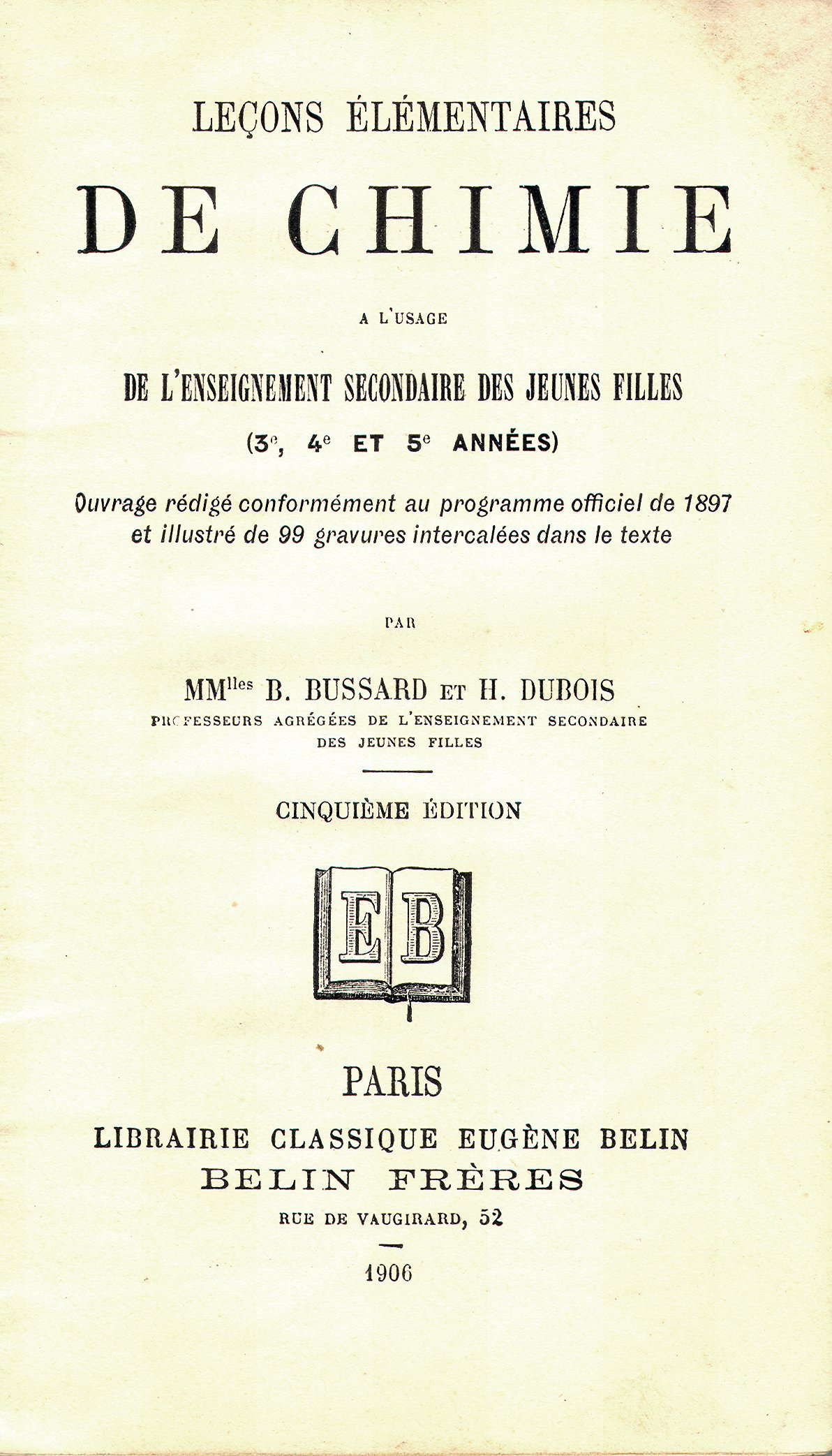 Picture scanned in : Leçons élémentaires de chimie (B.Bussard, H.Dubois). 1906, page 12.